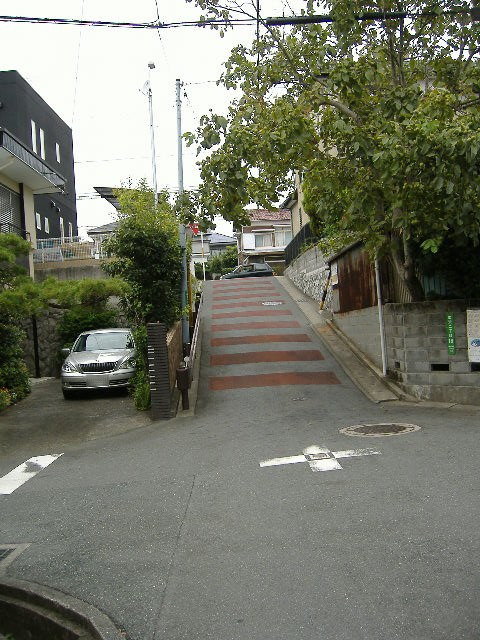 "Shijimidsuka-town" (Hamamatsu,Japan)